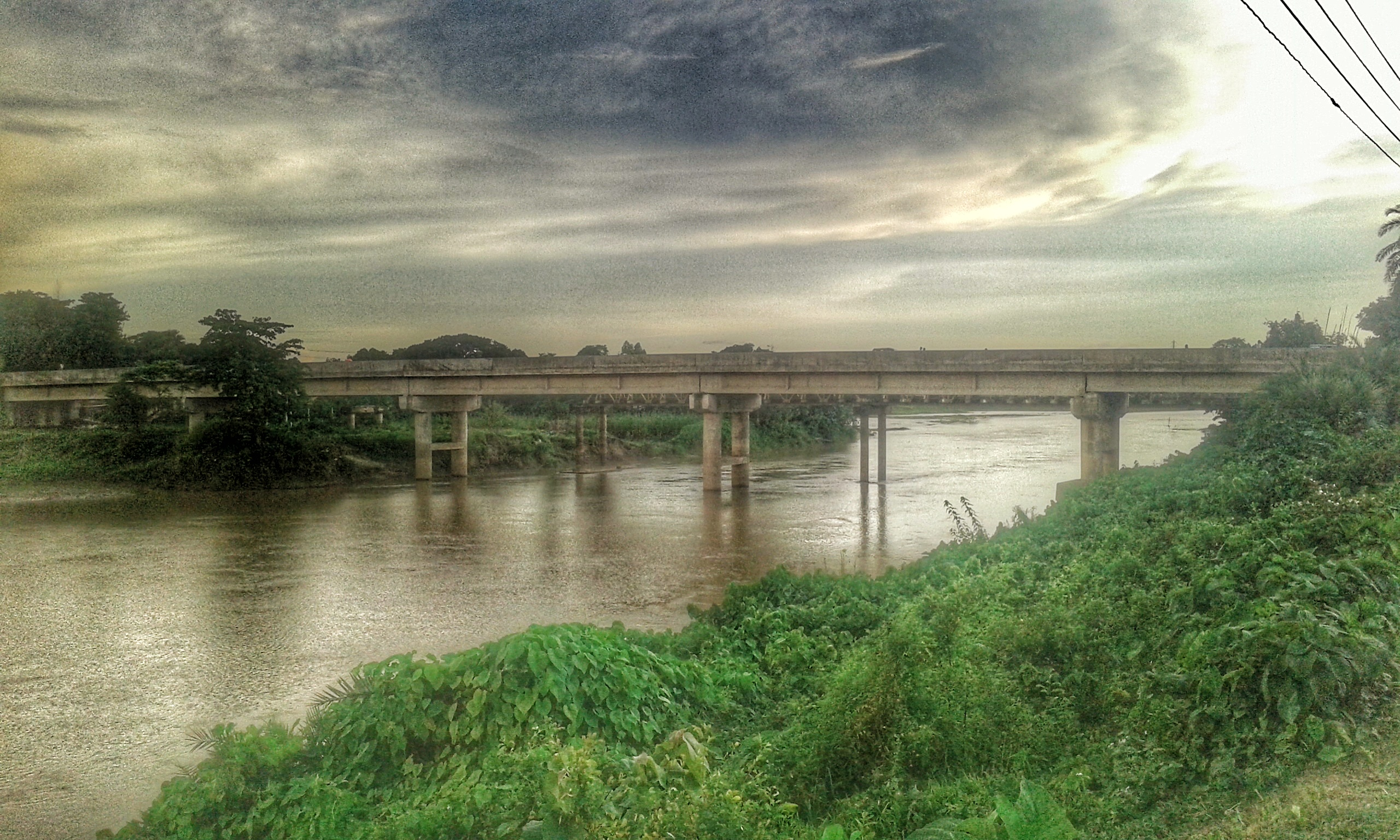 Gumti River,Comilla